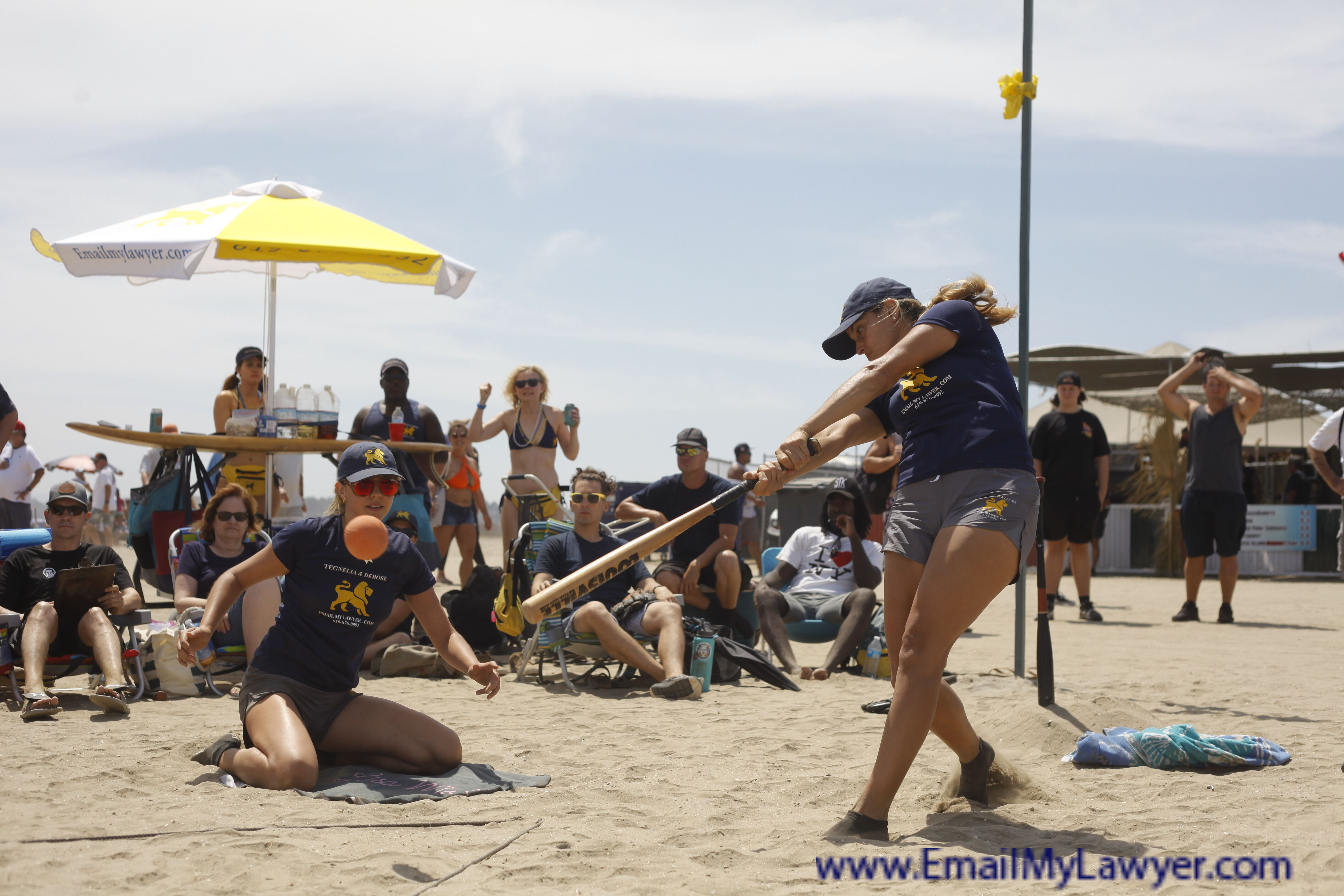 Elite Ladies Team Pitching and Batting